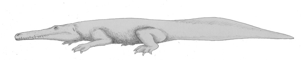 Prionosuchus